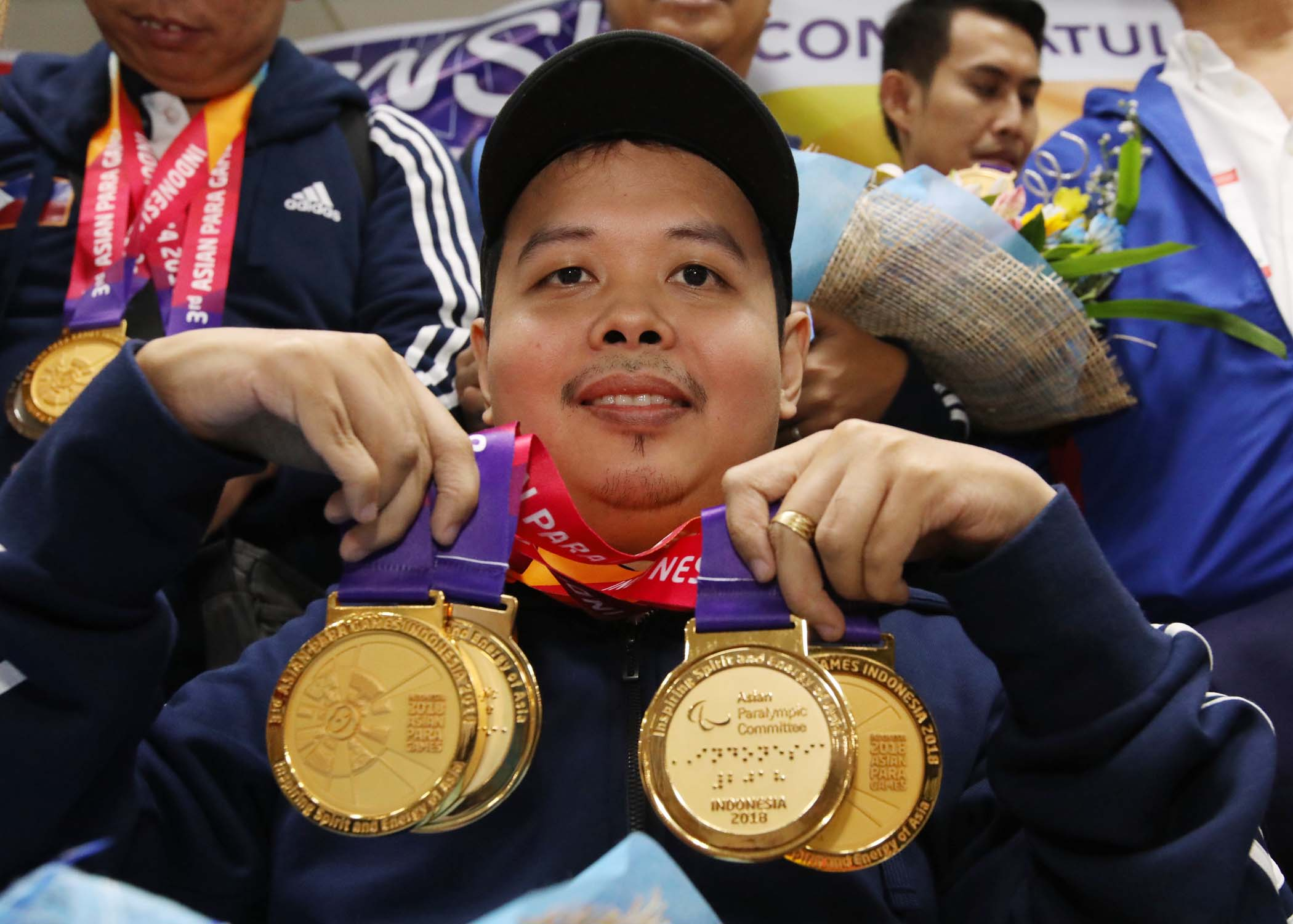 Sander Severino proudly shows his four gold medals from the 3rd Asian Para Games in Jakarta, Indonesia upon his arrival at the Ninoy Aquino International Airport (NAIA) Terminal 3 in Pasay City on Sunday (Oct. 14, 2018)